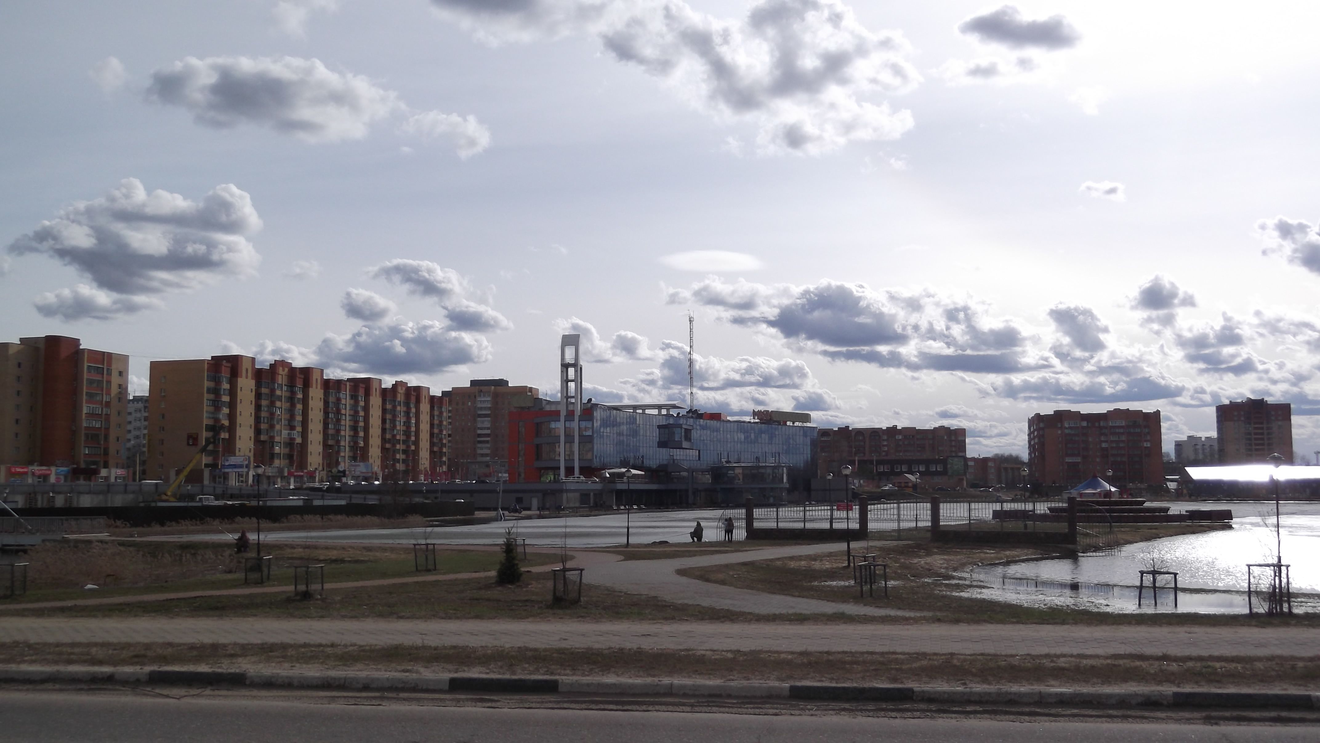 Dubna, Moscow Oblast, Russia. Shopping and entertainment center "Mayak" (in the centre) in Dubna, Moscow oblast